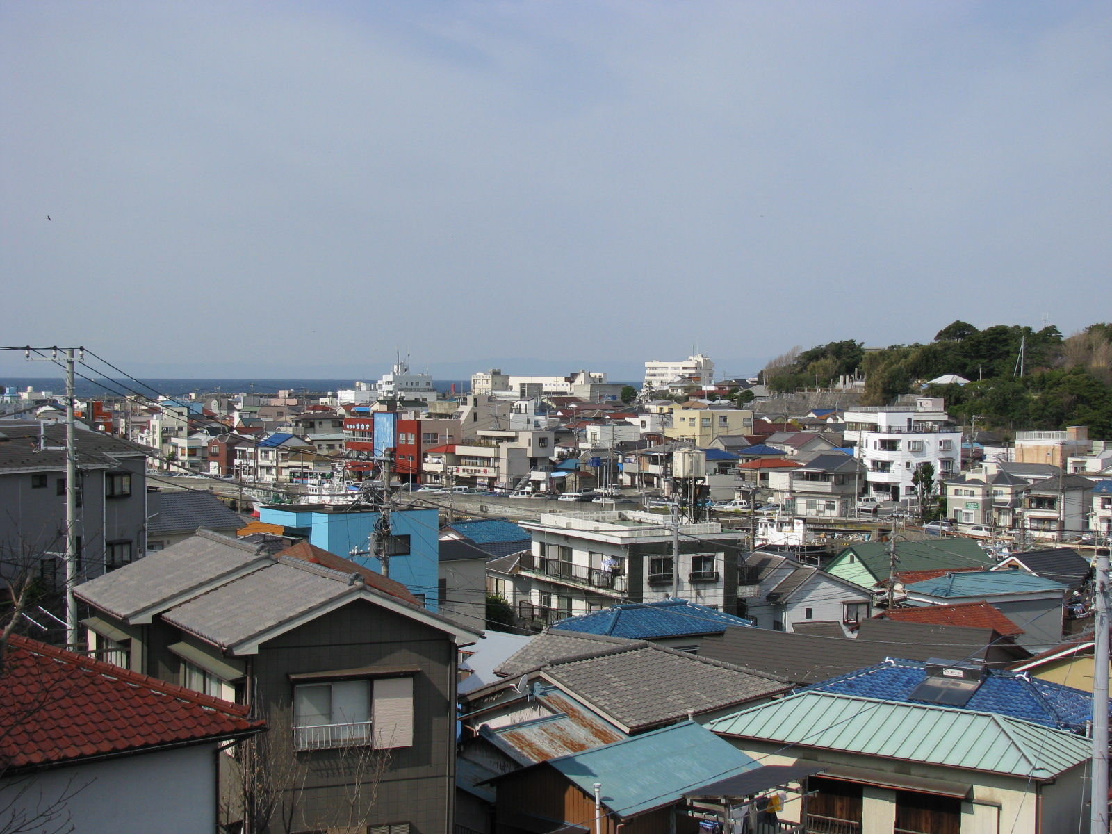 Misaki view. Misaki is a fishing port, located in Miura, Kanagawa, Japan.